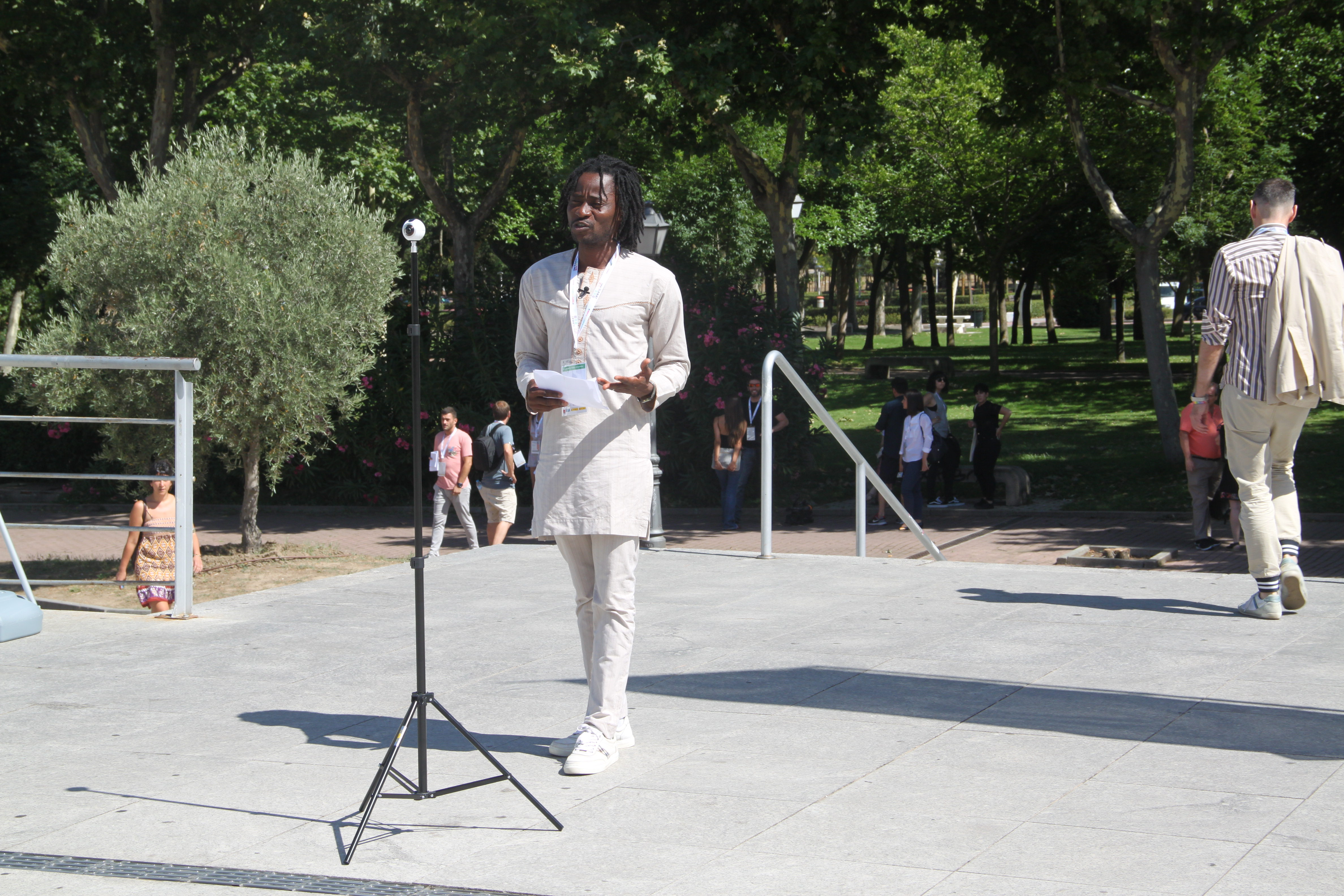 Bisi Amini at WorldPride Madrid